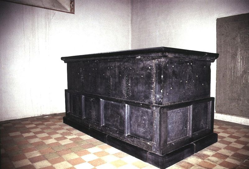 Sarcophagus of Valdemar IV of Denmark in Sorø Klosterkirke.